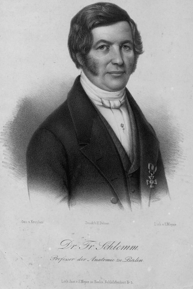 Friedrich Schlemm